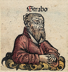 This is a part of a scan of an historical document: Title: Schedelsche Weltchronik or Nuremberg Chronicle